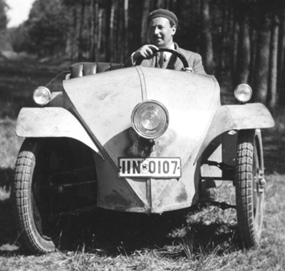 German engineer Josef Ganz inside his Ardie-Ganz 'Volkswagen' prototype, built at German motorcycle manufacturer Ardie, 1930.